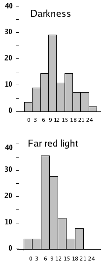 The change of kurtosis of the gravitropic response in wheat coleoptiles